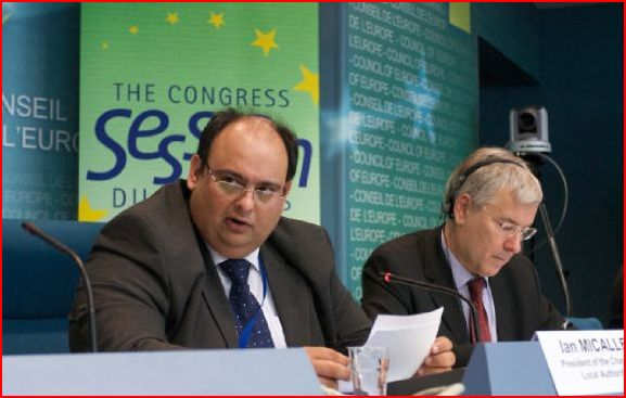 Picture of Ian Micallef, Pres. of Chamber of Local Authorities